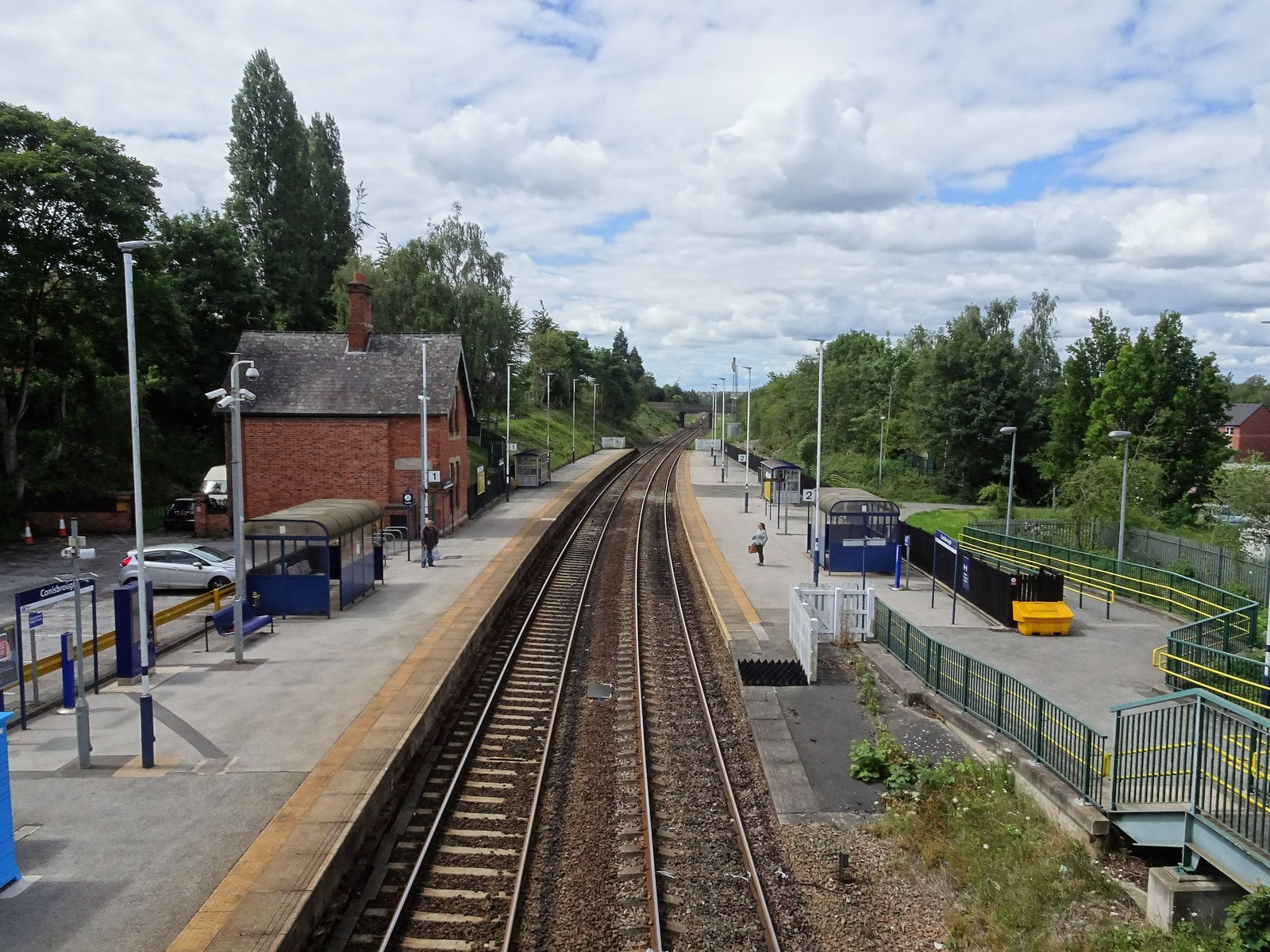 Conisbrough railway station, YorkshireOpened in 1884 by the Manchester Sheffield & Lincolnshire railway on what is now the line from Sheffield to Doncaster. This station replaced an earlier one slightly further east. View west towards Mexborough and Sheffield. On the face of it, little has physically changed save for the addition of two new waiting shelters in the 20 years since SK5099 : Conisbrough railway station, Yorkshire, 2000 was taken in the opposite direction.